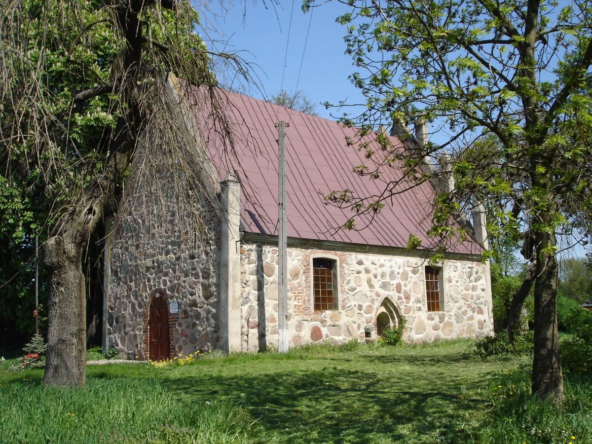 Our Lady of Częstochowa church in Strzyżno (Stargard County), Poland